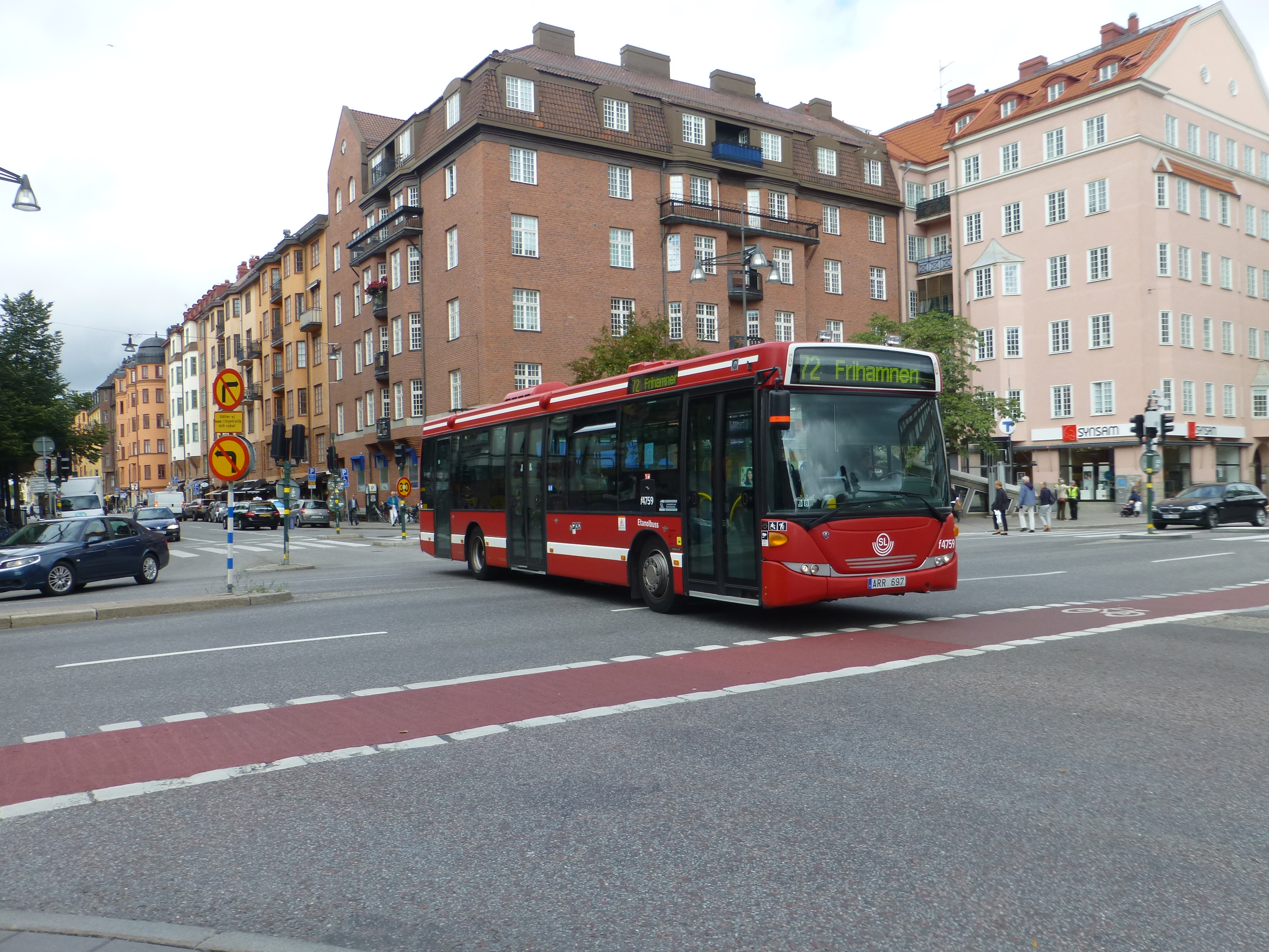 SL bus line 72 at Rörstrandsgatan in Stockholm.